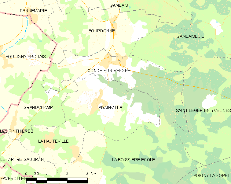 Map of French municipality Condé-sur-Vesgre